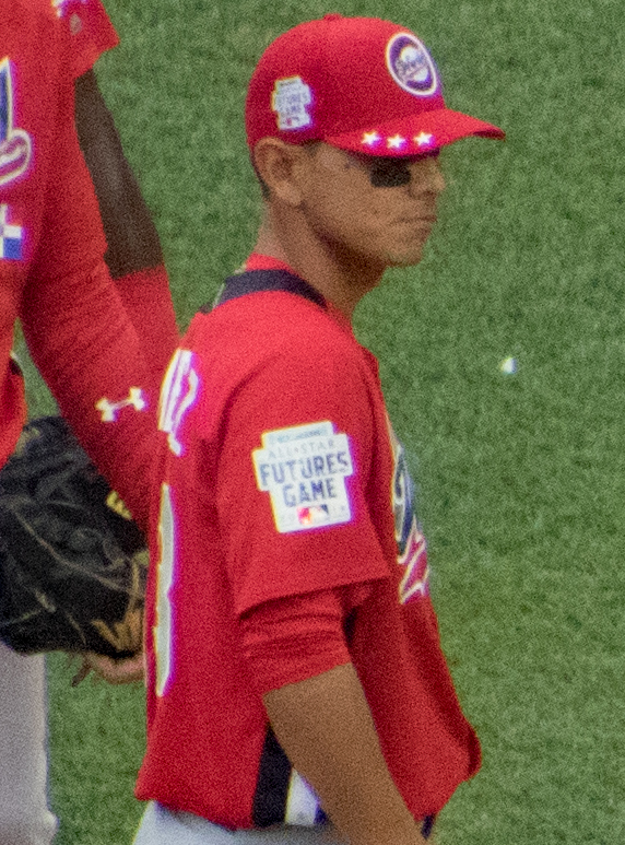 Dominican infielder Yordan Alvarez, Dominican infielder Luis Garcia, Venezuelan shortstop Andres Gimenez, Dominican infielder Fernando Tatis, Jr., Venezuelan catcher Keibert Ruiz and Dominican coach David Ortiz of the World team conduct a mound visit during the 2018 All-Star Futures Game at Nationals Park in Washington, D.C.